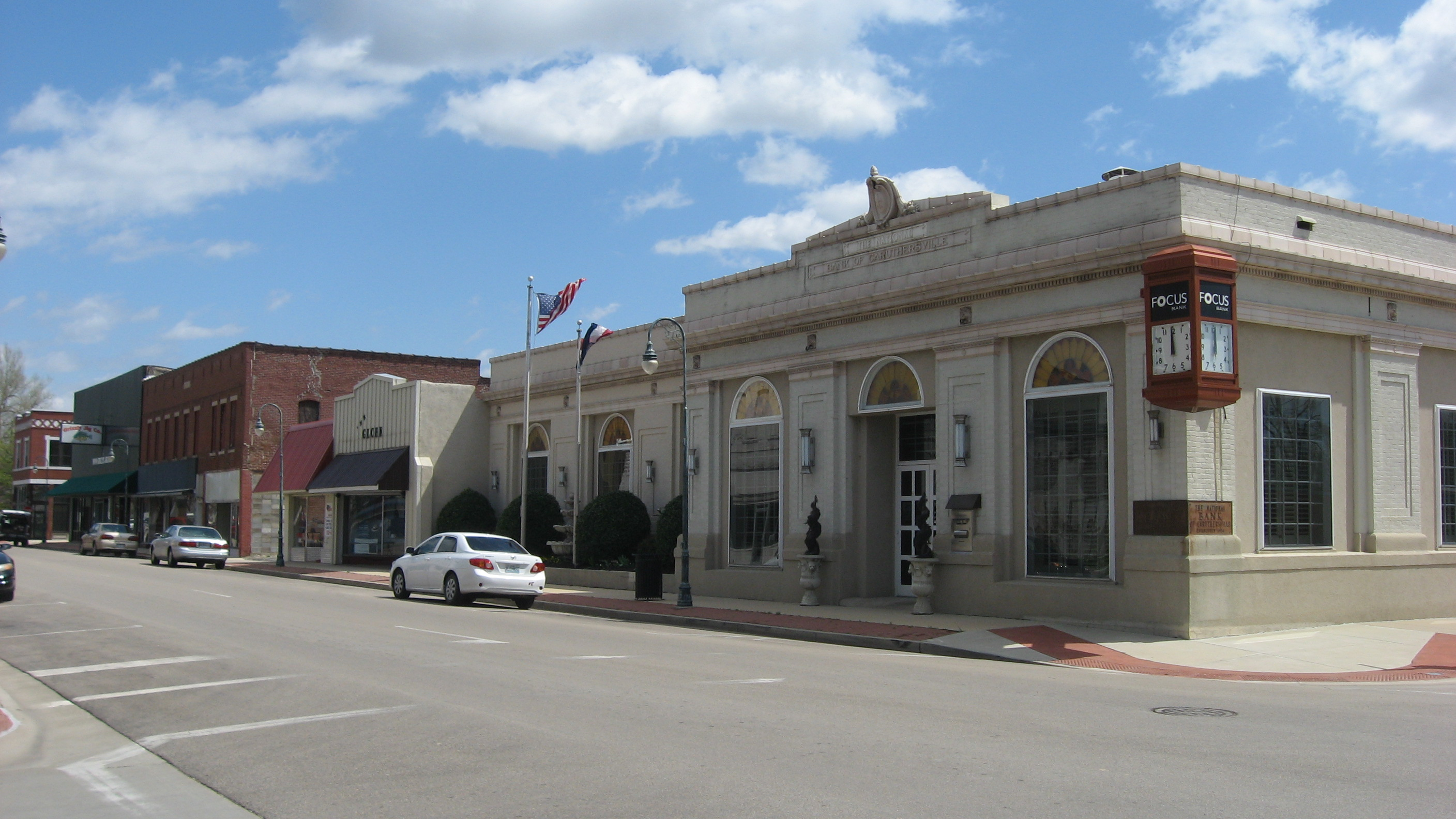 Buildings on the eastern side of Ward Avenue north of the Fourth Street intersection in downtown Caruthersville, Missouri, United States.